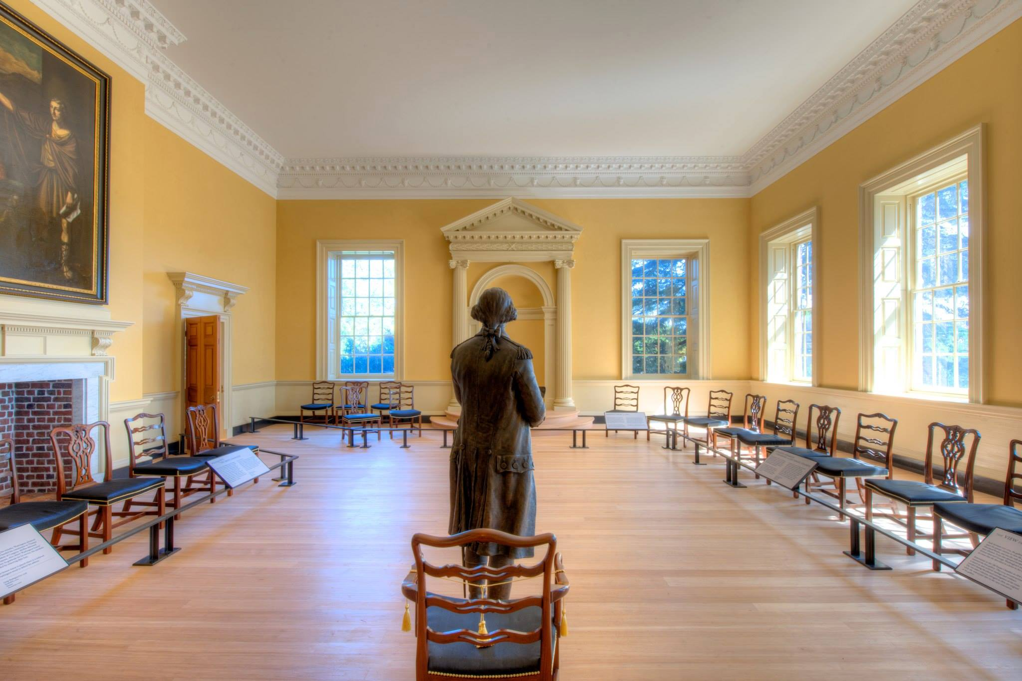 View of the Old Senate Chamber of the Maryland State House. Bronze statue of George Washington (by StudioEIS) placed approximately where he resigned as commander-in-chief on December 23, 1783.